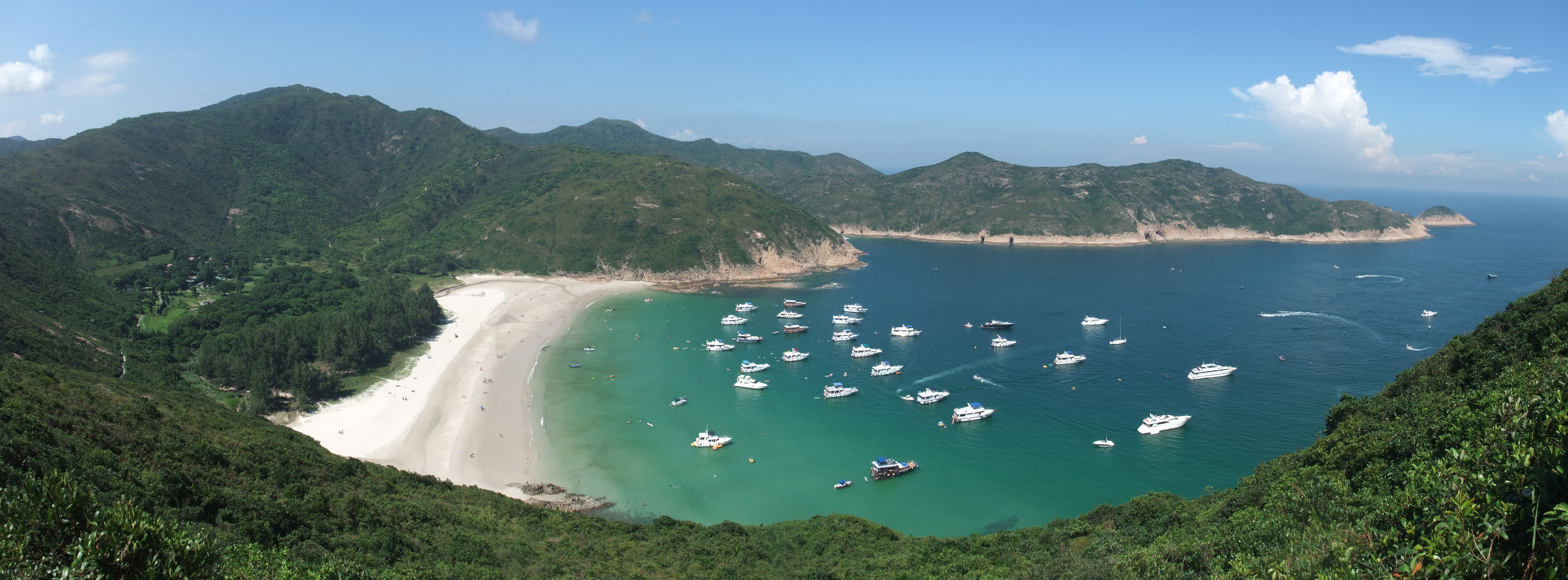 Panoramic photo of Long Ke Wan, combined from 2776459239, 2777323200, 2777329688 and 2777335998